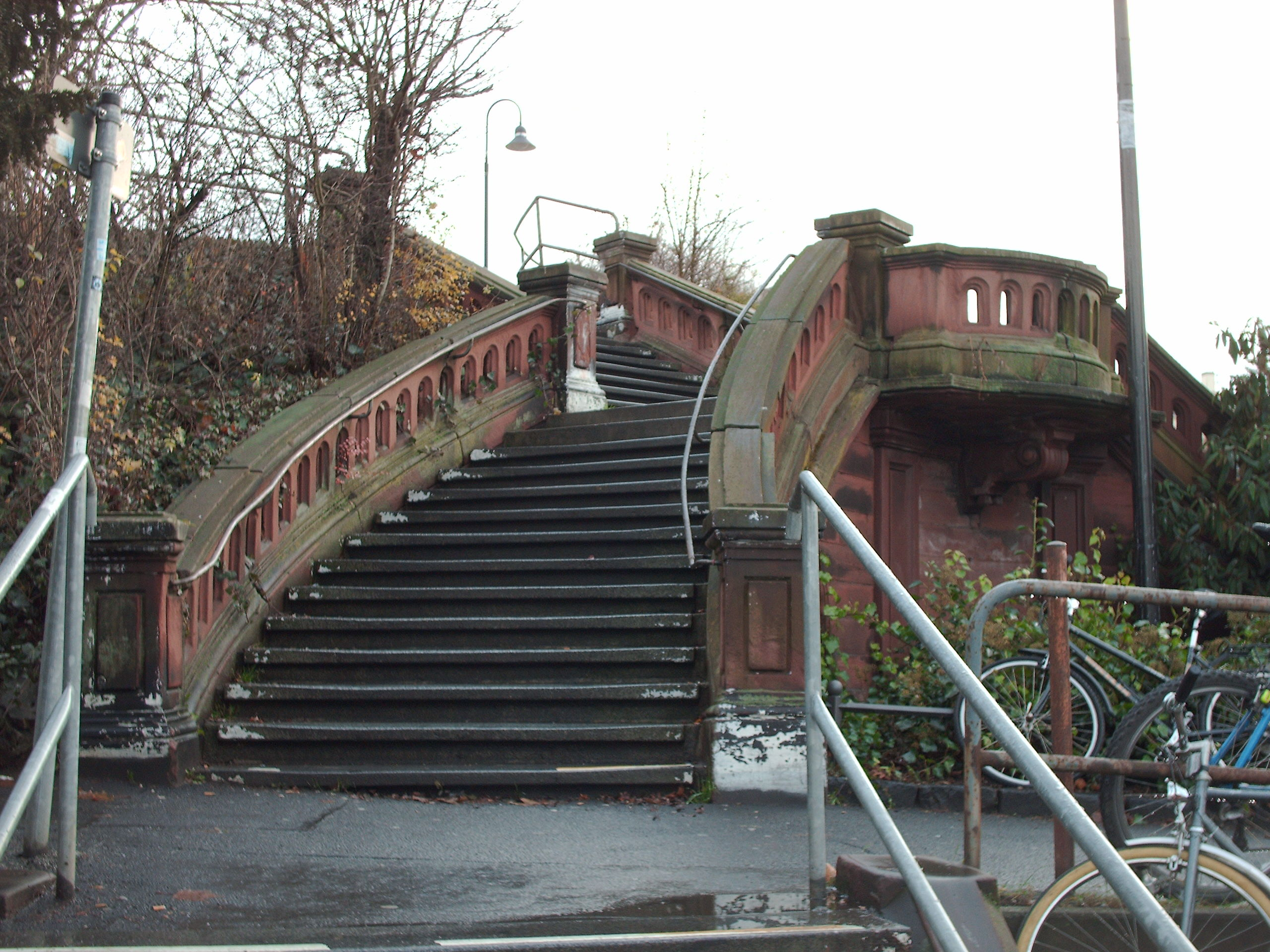 Perron at train station, Gießen, Germany check usage